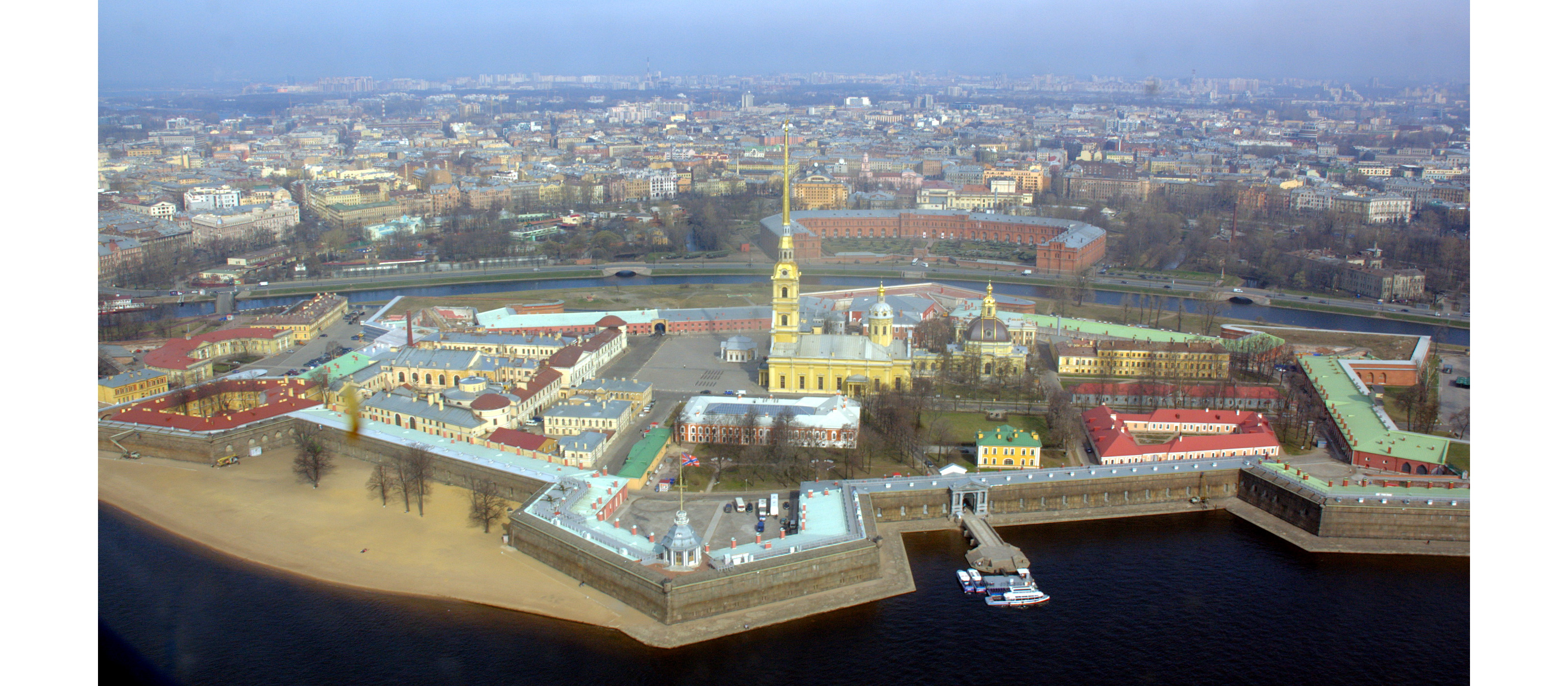 Peter and Paul Fortresswhite margins added deliberately - for an image map